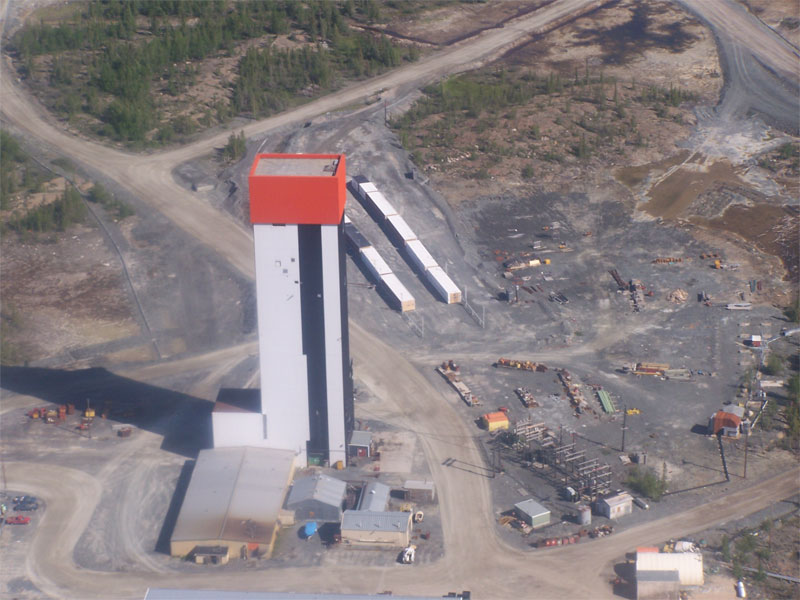 Aerial photo of Con Mine. An aerial view of Con Mine. Саха тыла: Aerial photo of Con Mine.